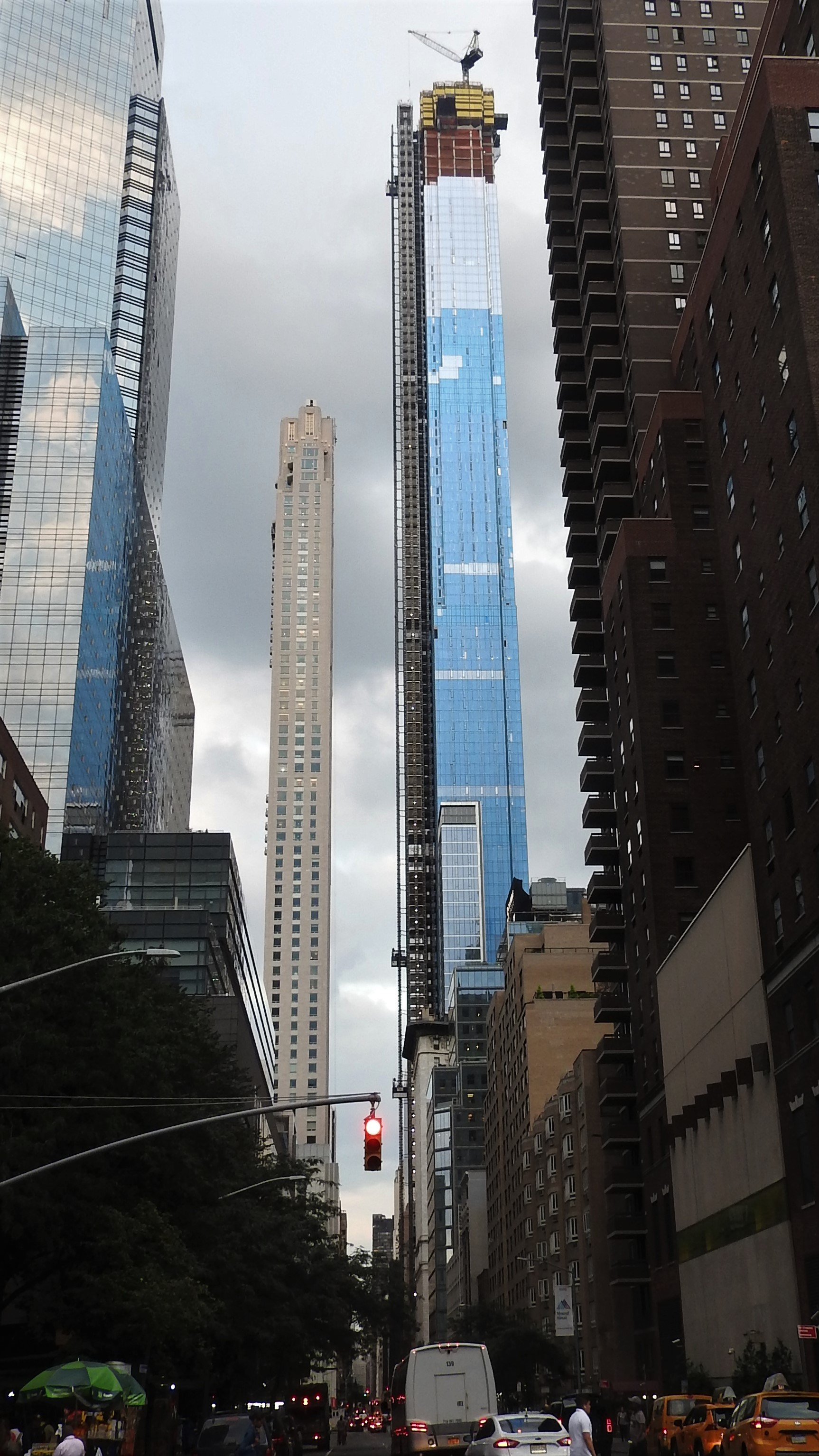 Looking east across 9th Avenue and along 58th Street at narrow buildings, one under construction.